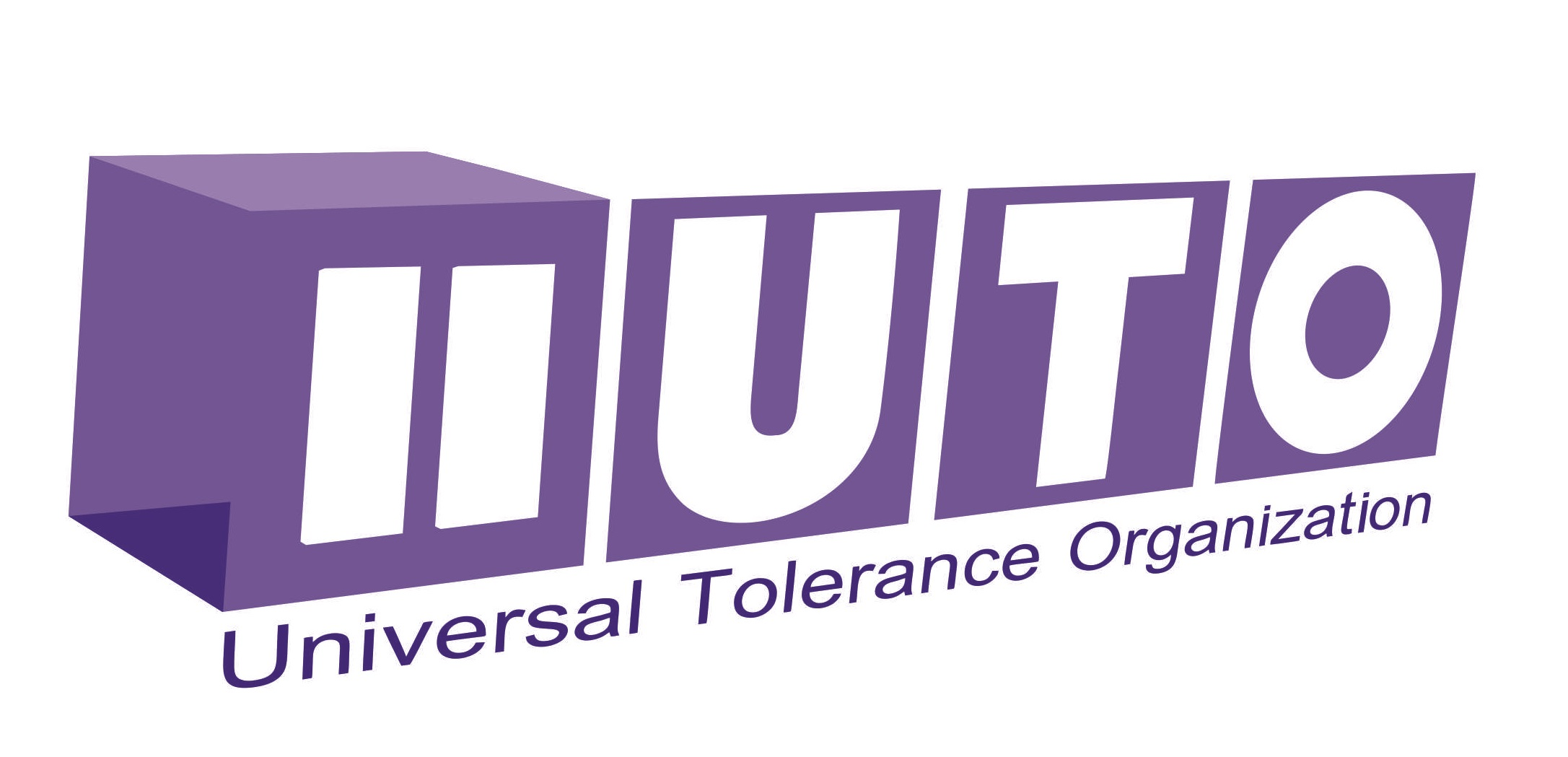 Logo of Norway-based Universal Tolerance Organization.